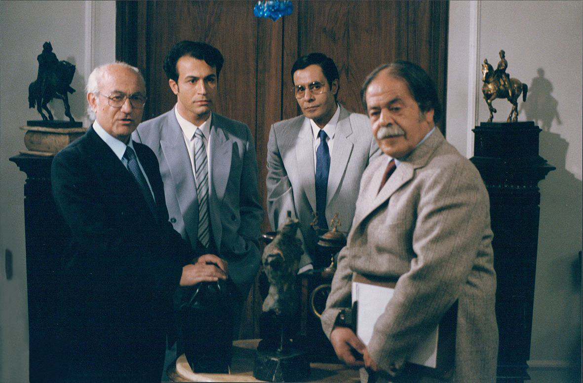 Danial Hakimi in Legion